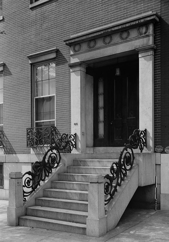 View of the exterior of the Daniel C. Gilman House, 614 Park Avenue, Baltimore, Maryland, by E. H. Pickering of the Historic American Building Survey, dated September 1936. Daniel C. Gilman was the first president of Johns Hopkins University in Baltimore. Image from the Prints and Photographs Division, Library of Congress, Washington, D.C.